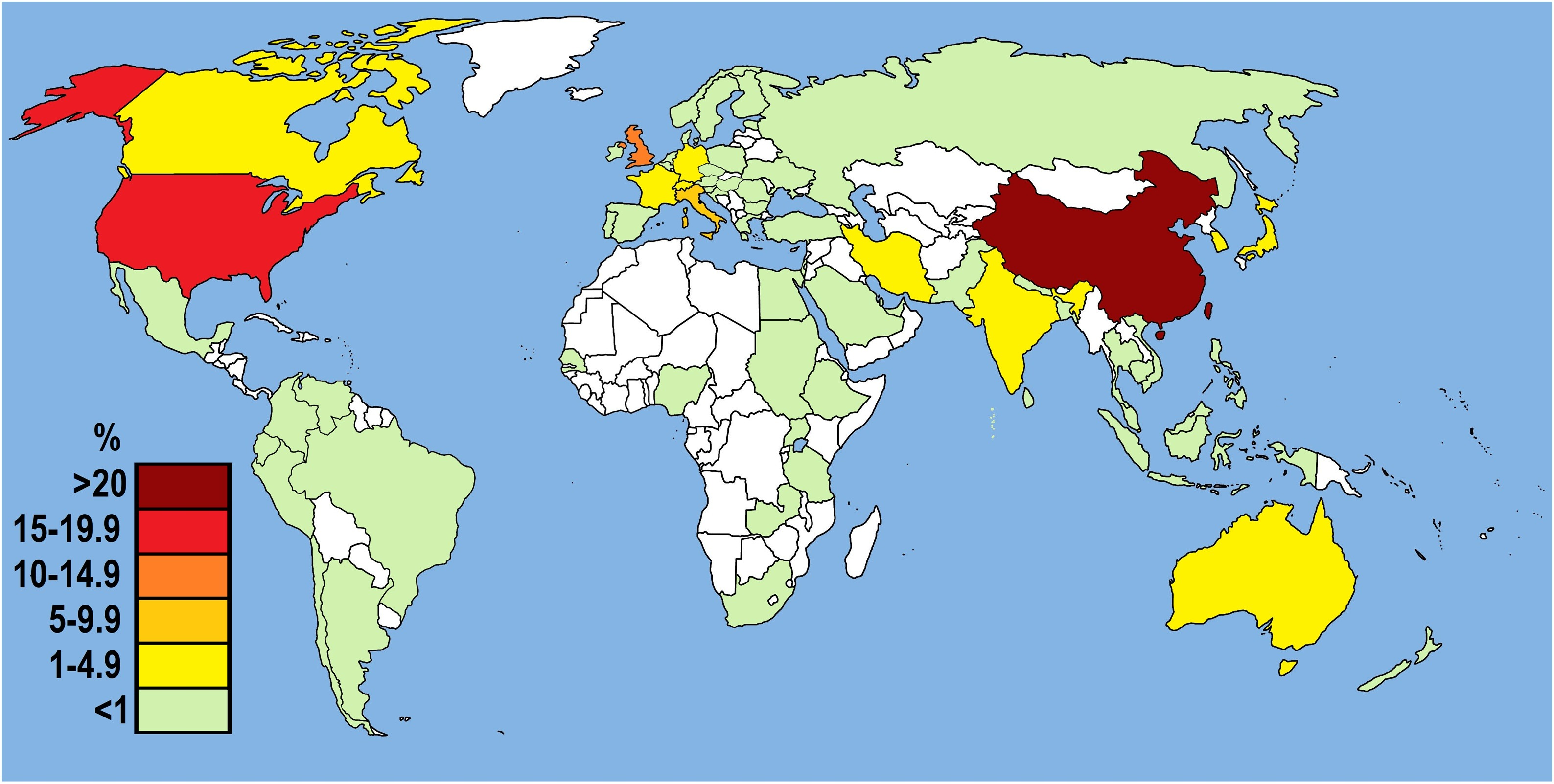 The distribution of corresponding author(s) of English-language peer-reviewed articles (n = 2062) and preprints (n = 1425) published on SARS-CoV-2 (2019-nCoV) and COVID-19 between January and March 2020.